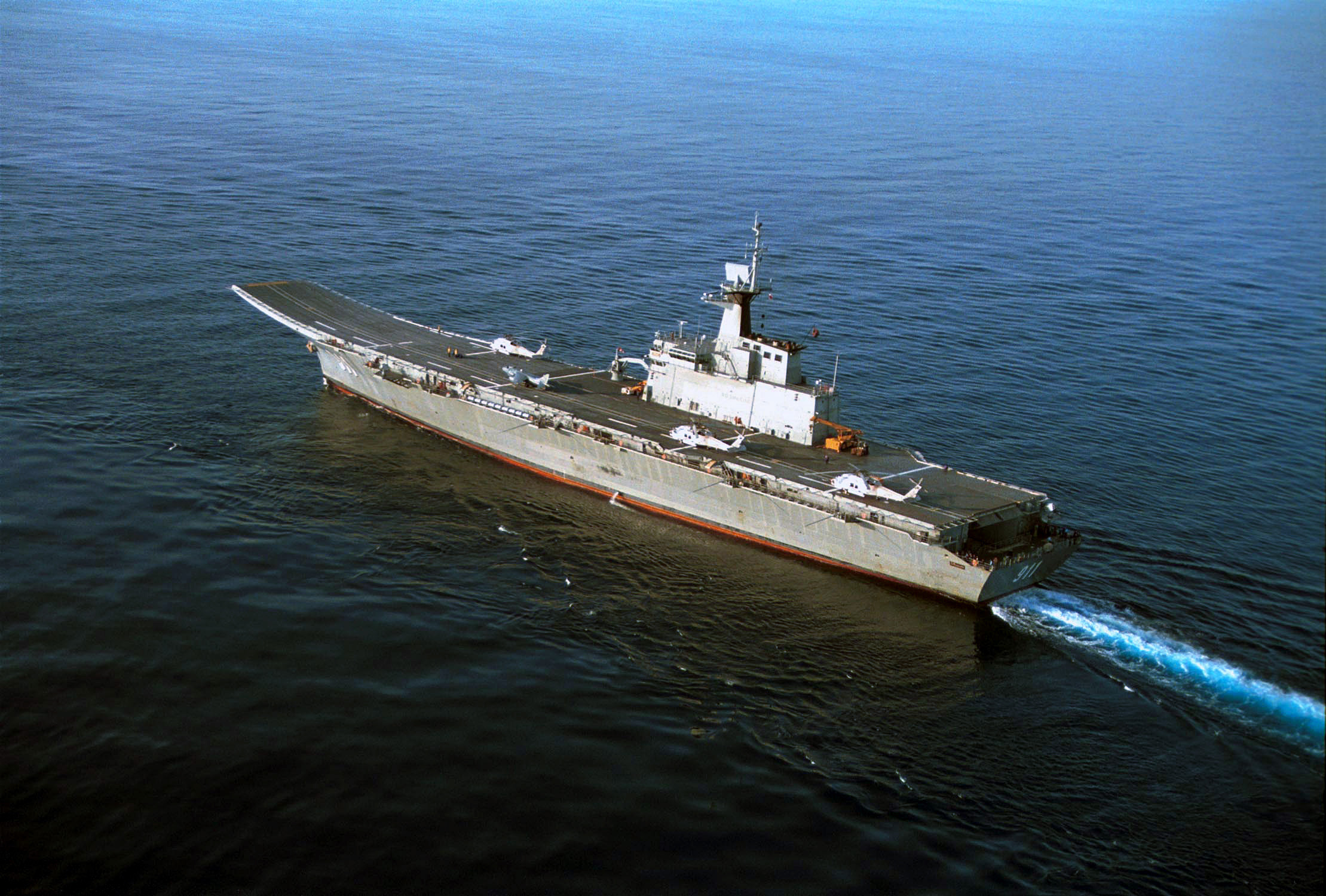 AAerial port side view of the Royal Thai Navy (RTN) His Majestys Thai Ship (HTMS) CHAKRI NARUEBET (911), underway in the South China Sea.